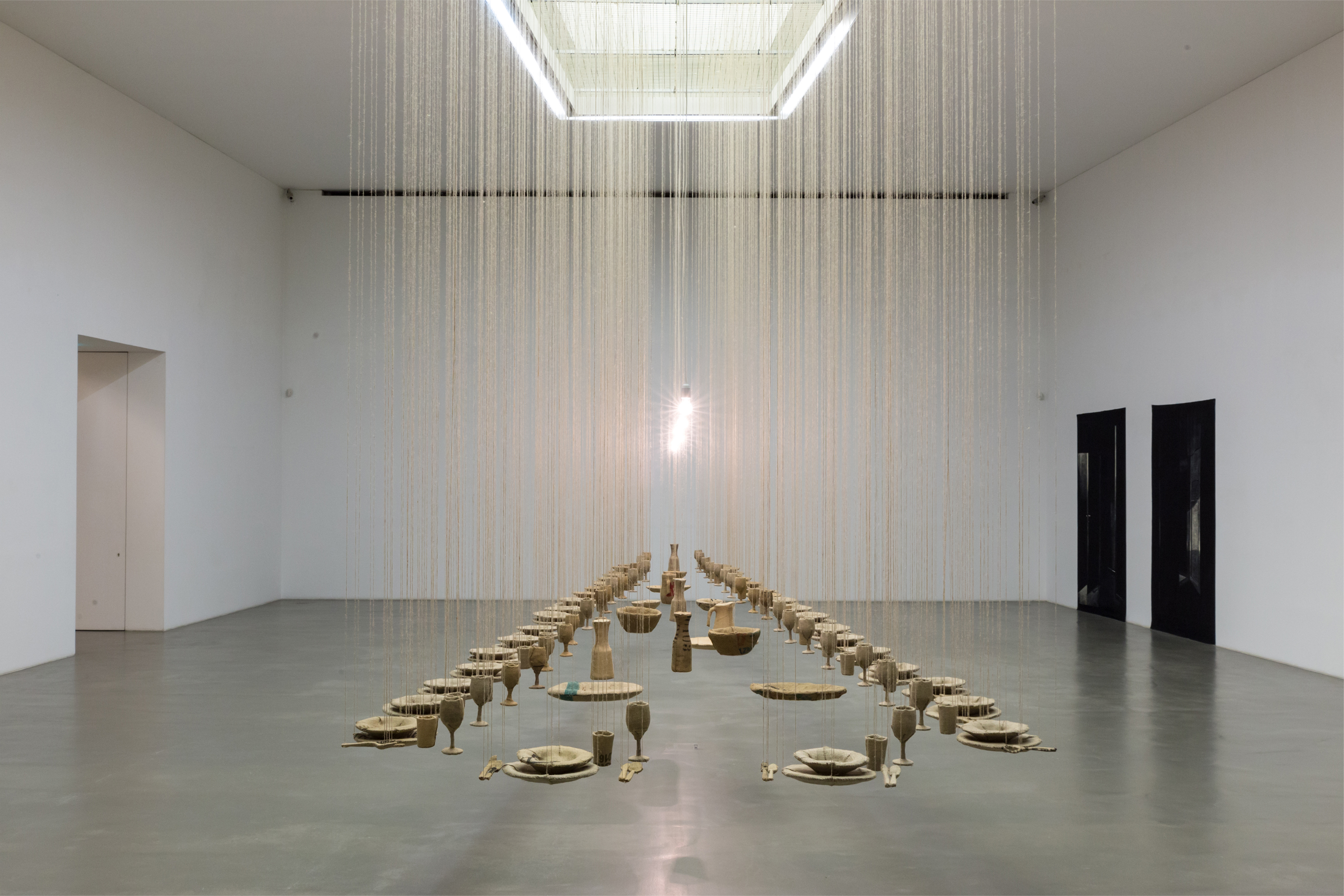 Set Table, 36 sets of utensil warped and sewed in jute hanging from the ceiling, variable dimensions Placed at Centro de Arte Contemporanea, Graca Morais, Braganca, Portugal Solo exhibition Disruptive Order